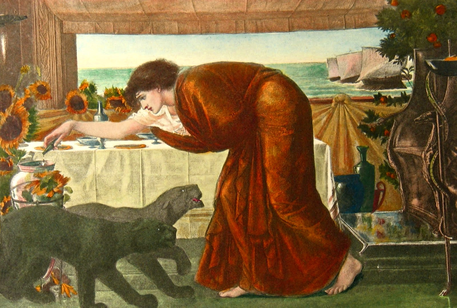 Illustration for The Outline of Literature by John Drinkwater (Newnes, c 1900).